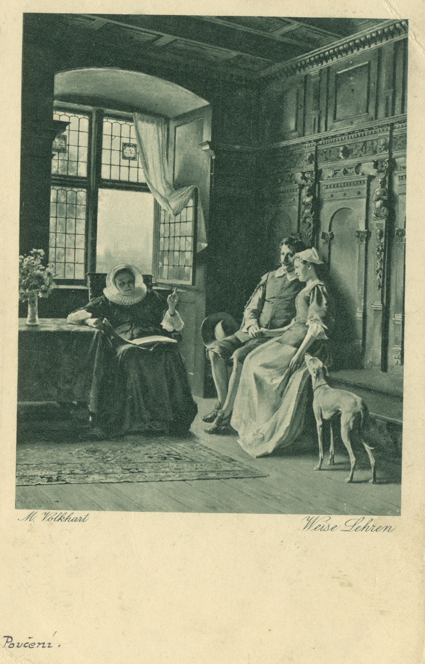 Max Volkhart: Weise Lehren